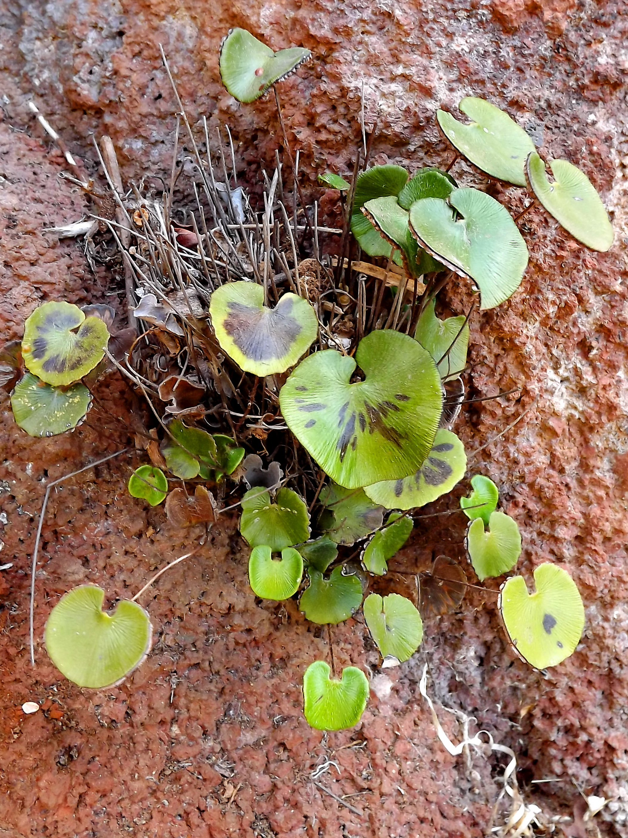 Adiantum reniforme, La Palma, Spain.